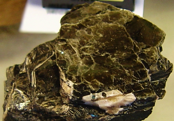 Biotite I took this photo in october 2005